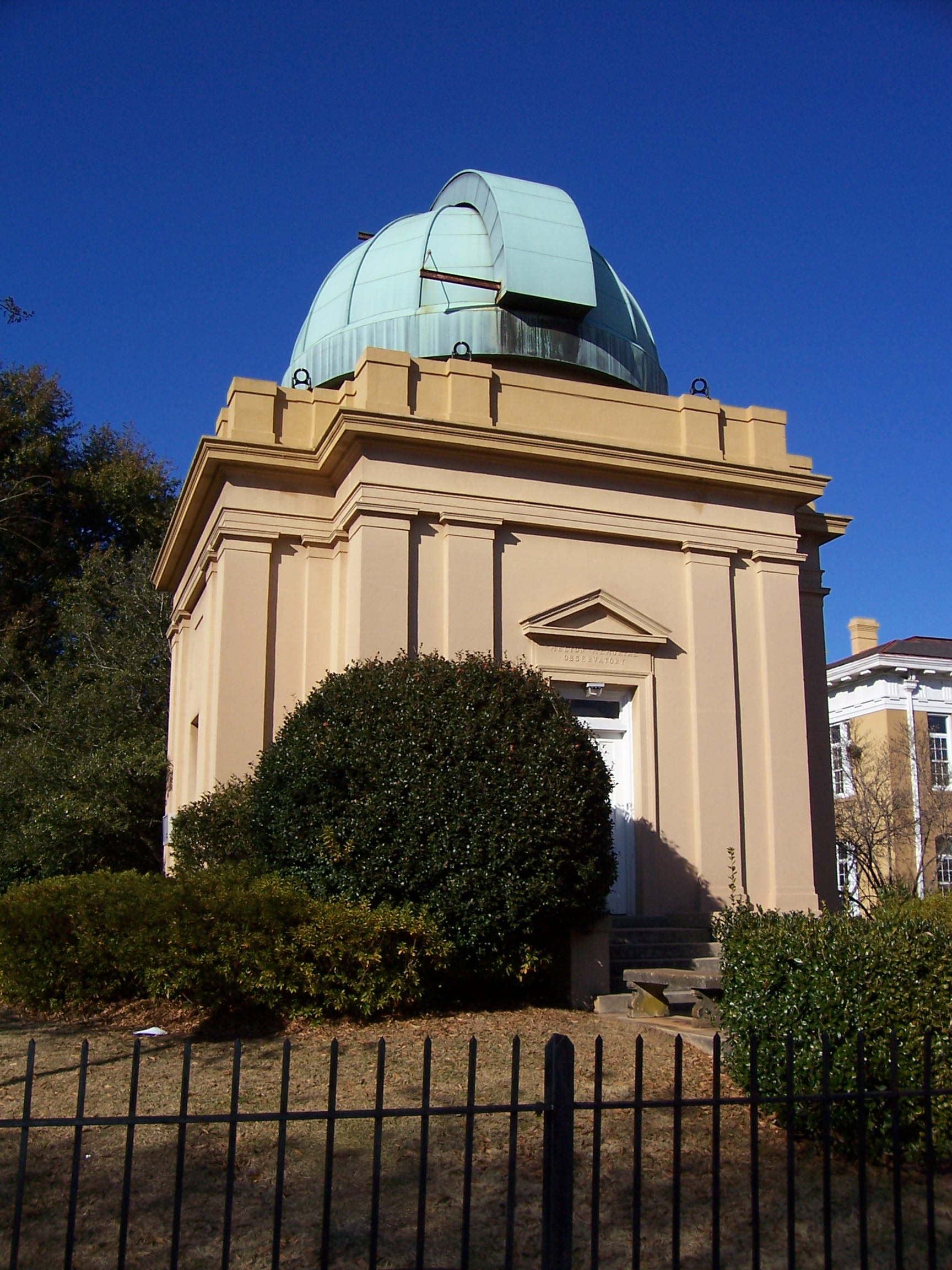 Melton Memorial Observatory on the campus of the University of South Carolina, Columbia, South Carolina.